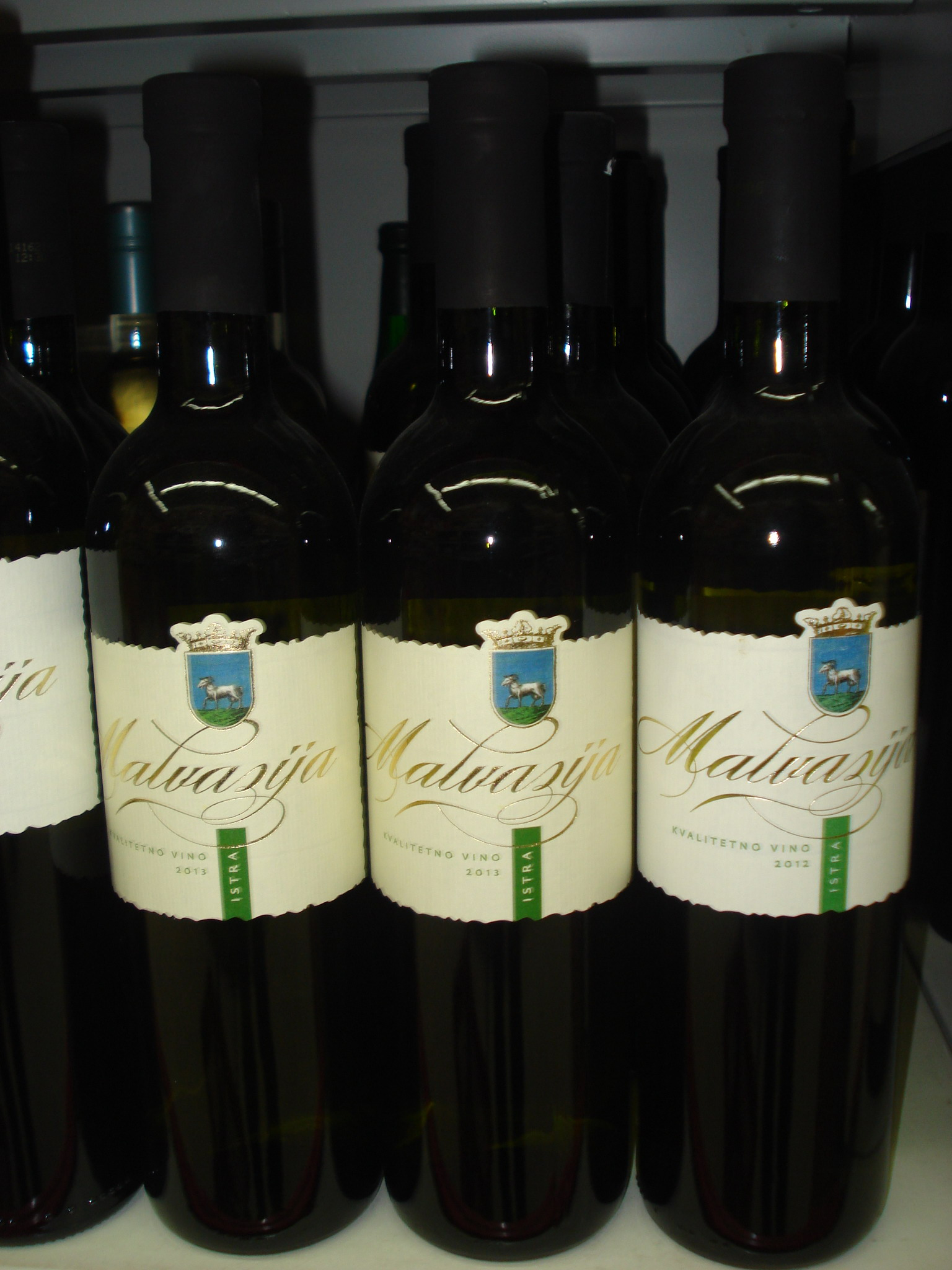 Bottles of Malvazija istarska (Malvasia of Istria) wine, autochthonous quality white wine with controlled geographical origin, produced in Istria wine subregion, CroatiaHrvatski: Boce vina Malvazija istarska, autohtonog kvalitetnog bijelog vina s kontroliranim zemljopisnim podrijetlom, proizvedeno u vinogradarskoj podregiji Istra, Hrvatska